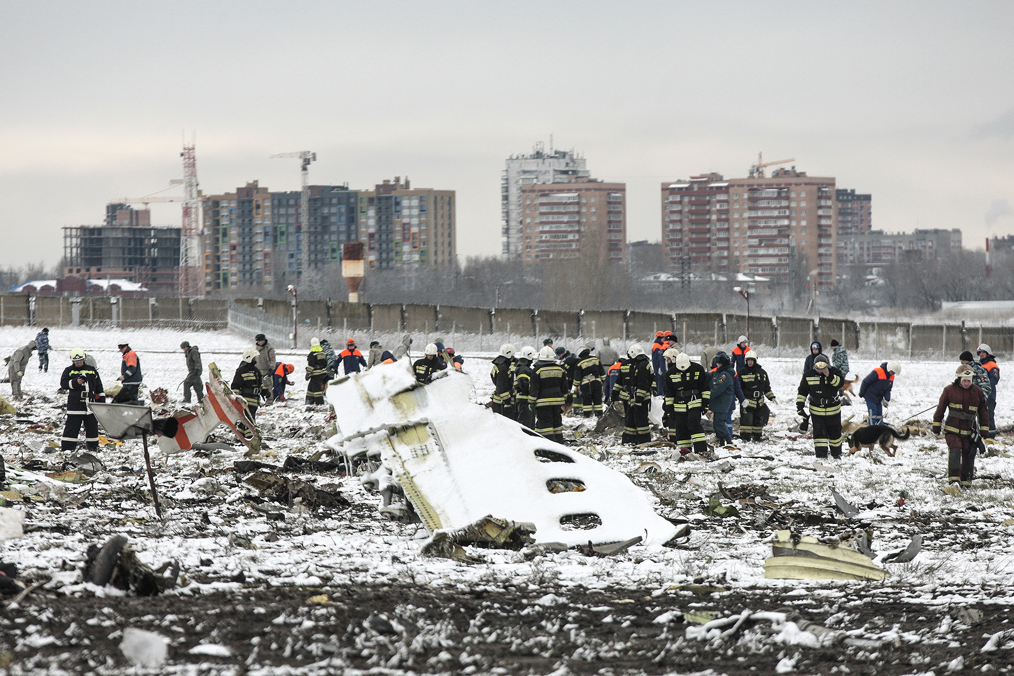 Rescue workers sift the wreckage of Flydubai Flight 981 (Rostov-on-Don, Russia)